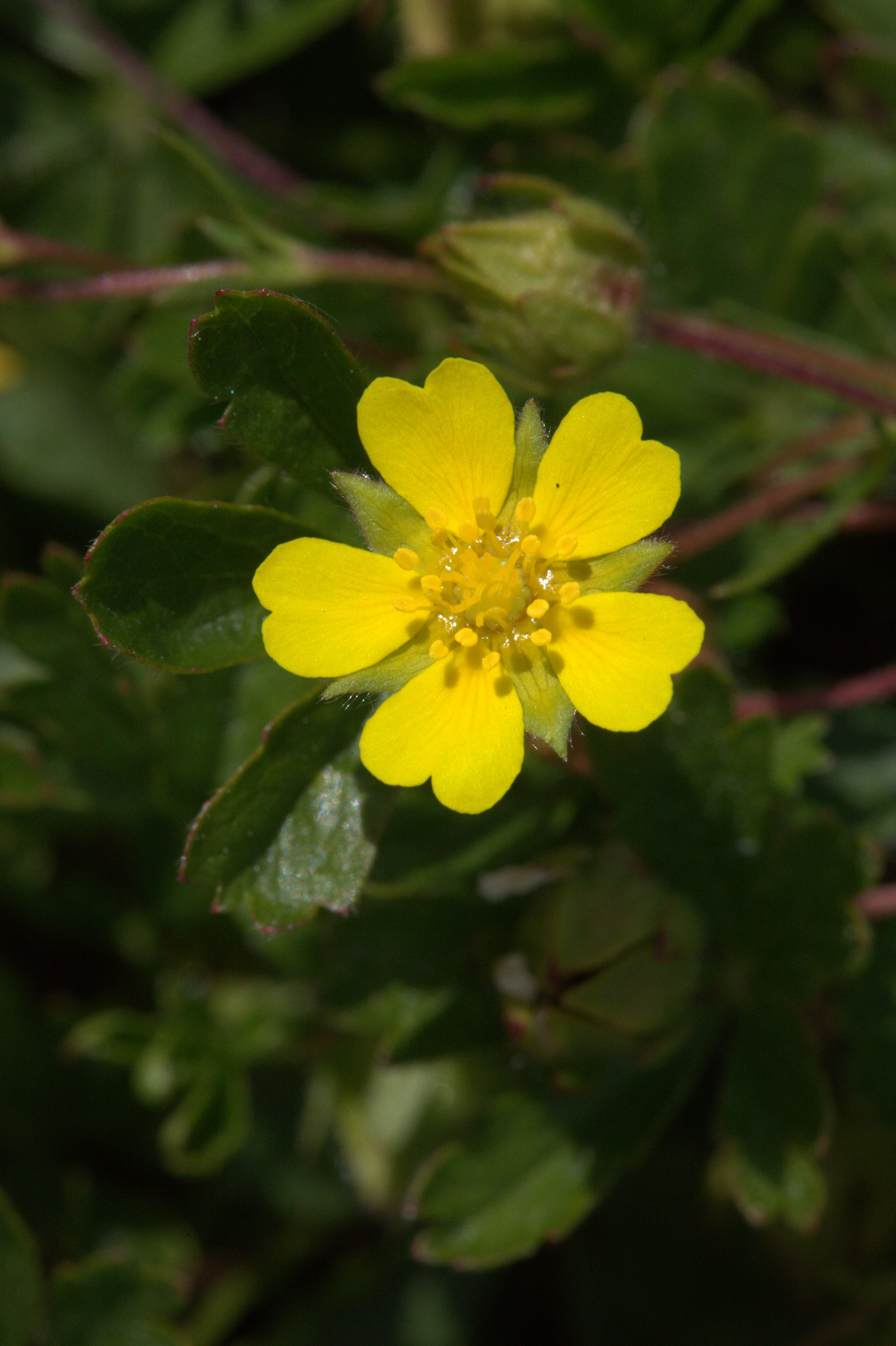 Photo taken at Gothenburg botanical garden. Specimen id: 1990-2251 p G Plant collected in 1990 from a garden (Landsberg).